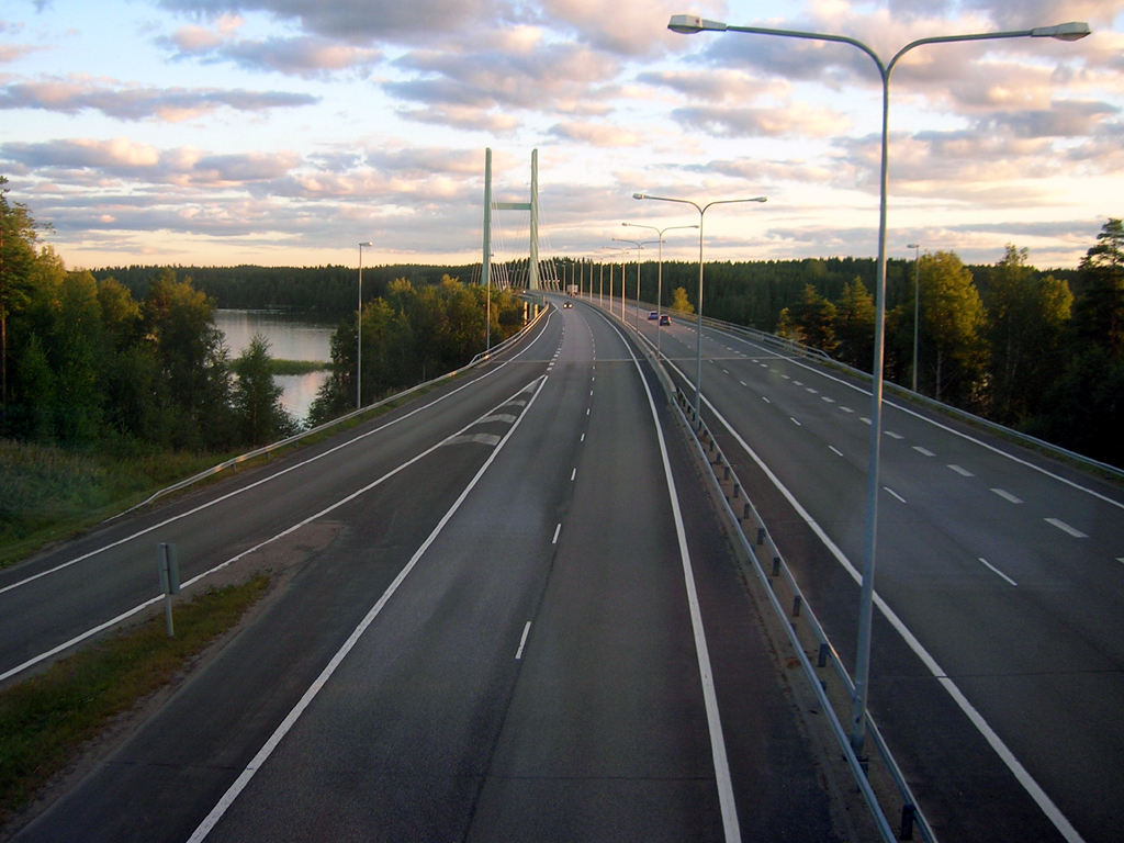 National road 4 (E75) in Heinola, Finland. Tähtiniemi Bridge on the background.